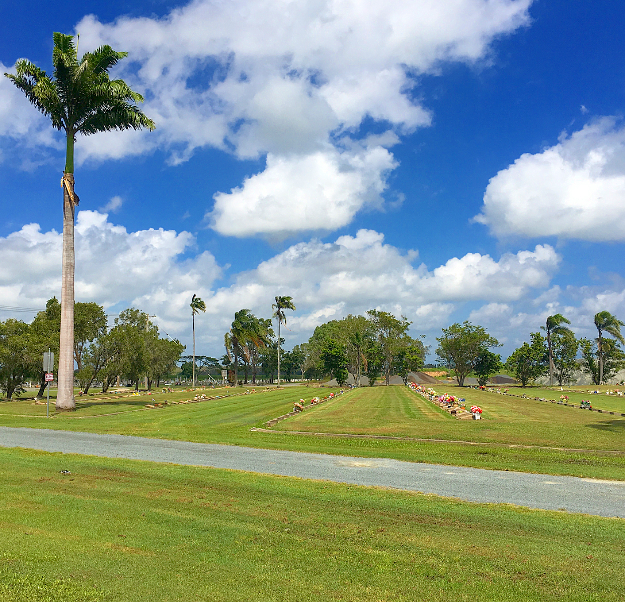 A view of the Proserpine Lawn Cemetery in April 2018.